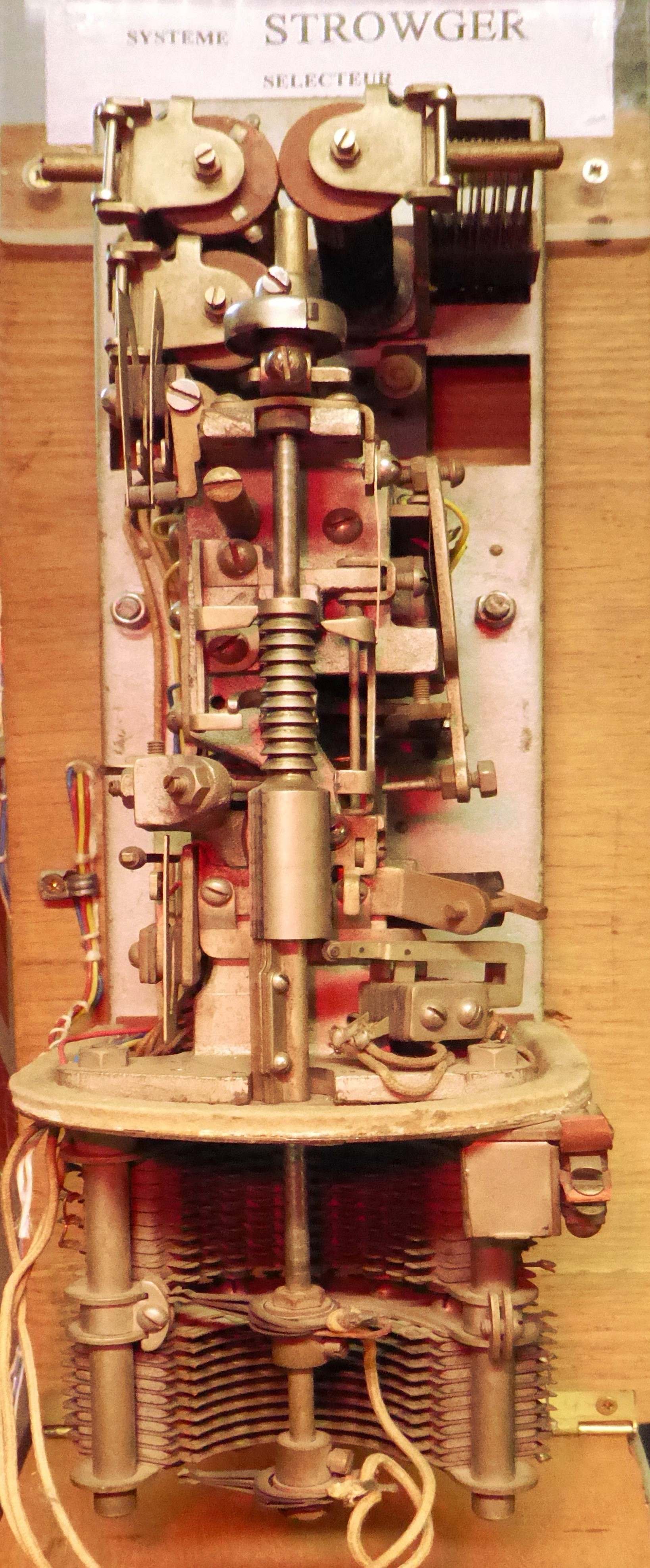 Strowger switch .- Musée régional des télécommunications en Flandres, Marcq-en-Barœul, Nord.- France